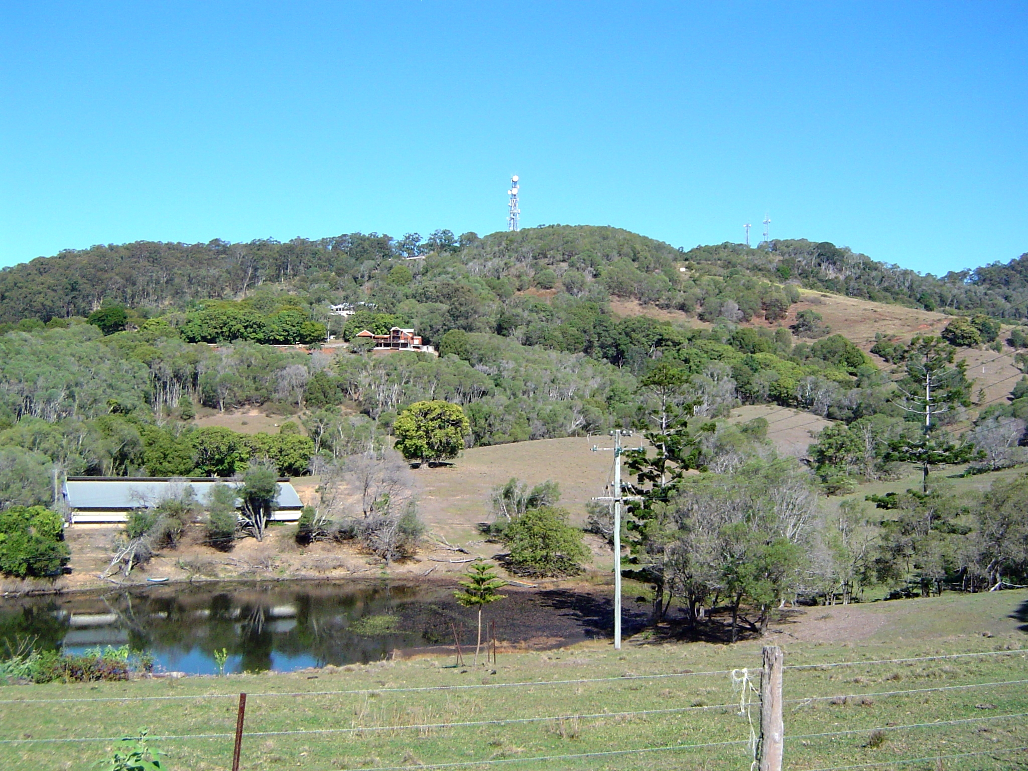 Photo of Mount Cotton from Mount View Road at Mount Cotton, Redland City, Queensland, Australia.